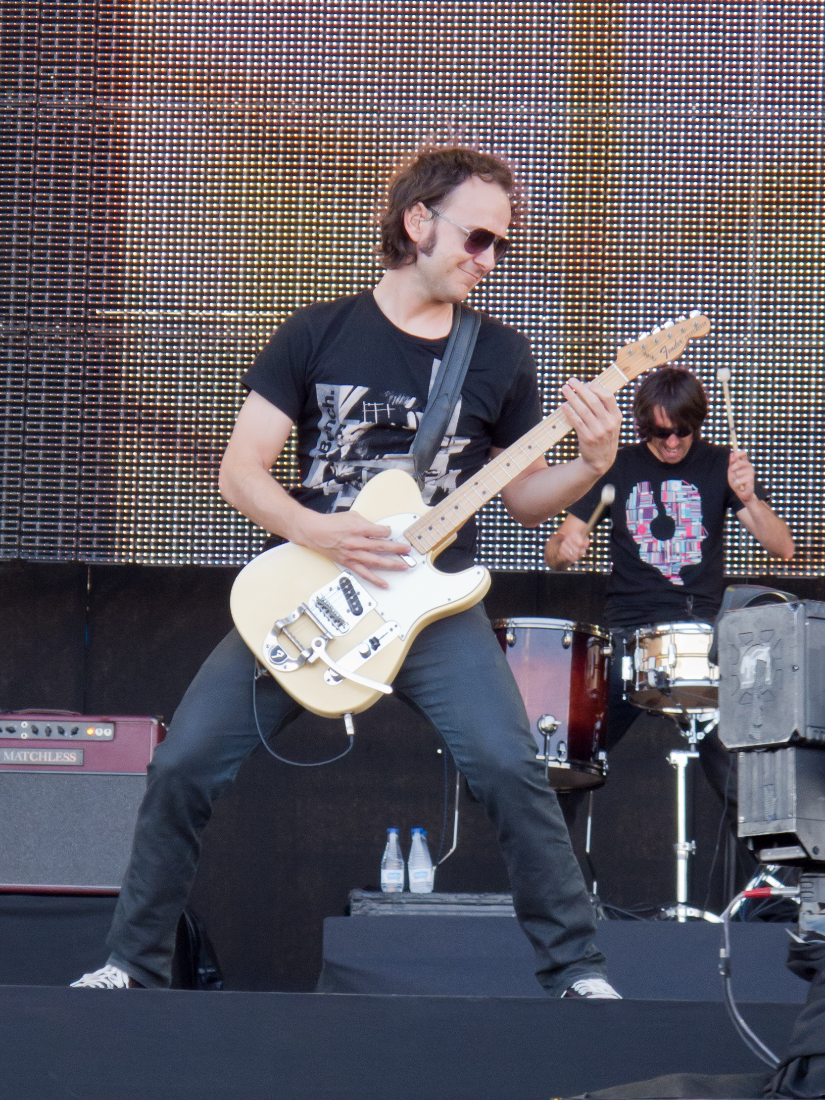 La oreja de Van Gogh in Rock in Rio Madrid 2012.